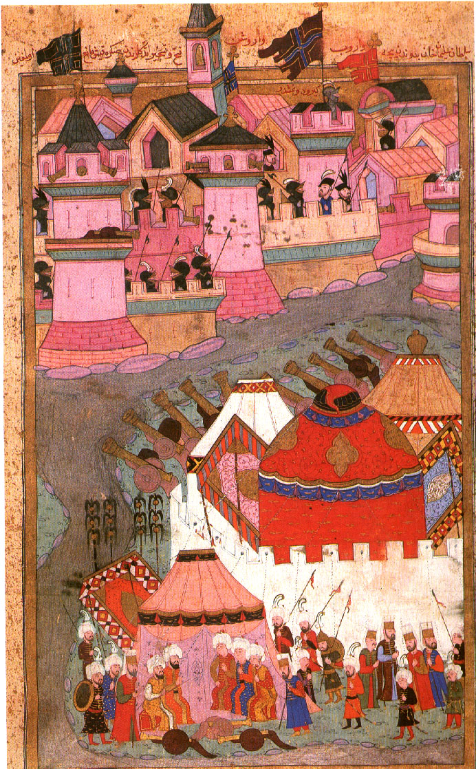 The Ottoman army besieging Vienna (1529). Hazine 1524, folio 257b